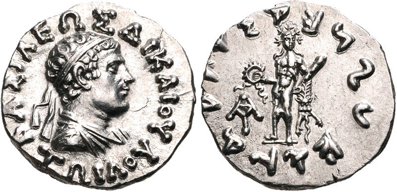 Zoilos I the Just bilingual coin